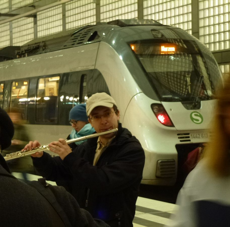 Bach in the Subway 2015 in Leipzig